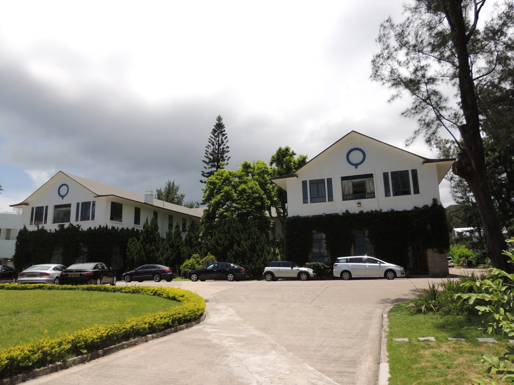 St. Stephen's College - School House